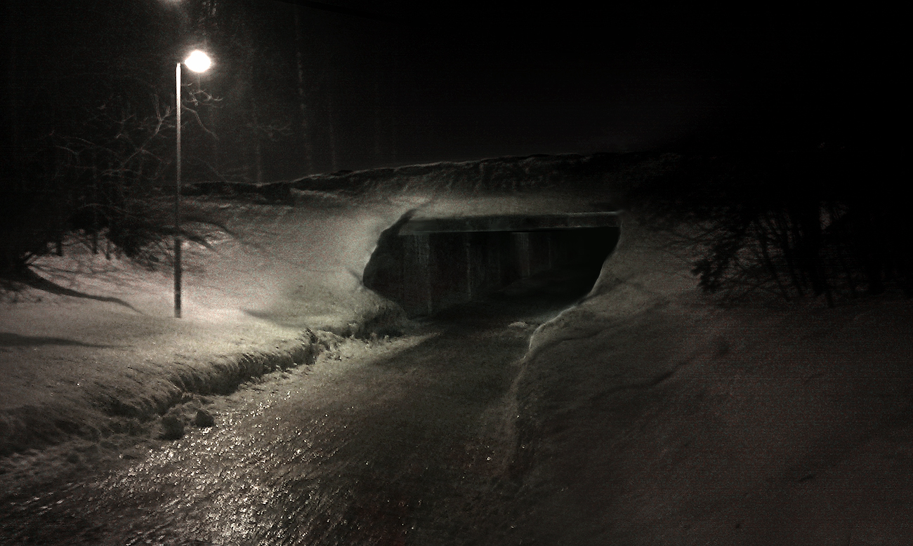 Underpass in Sweden